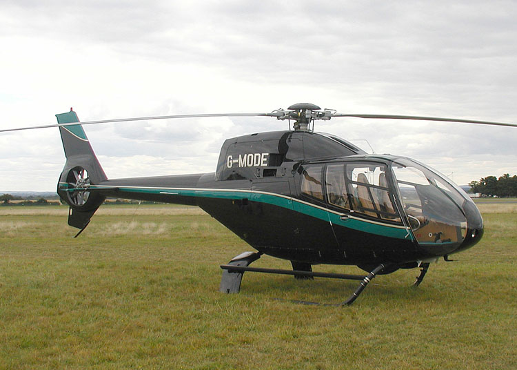 Eurocopter EC120B, photographed at the Heli-Day, Kemble Airfield, England, in August 2003.